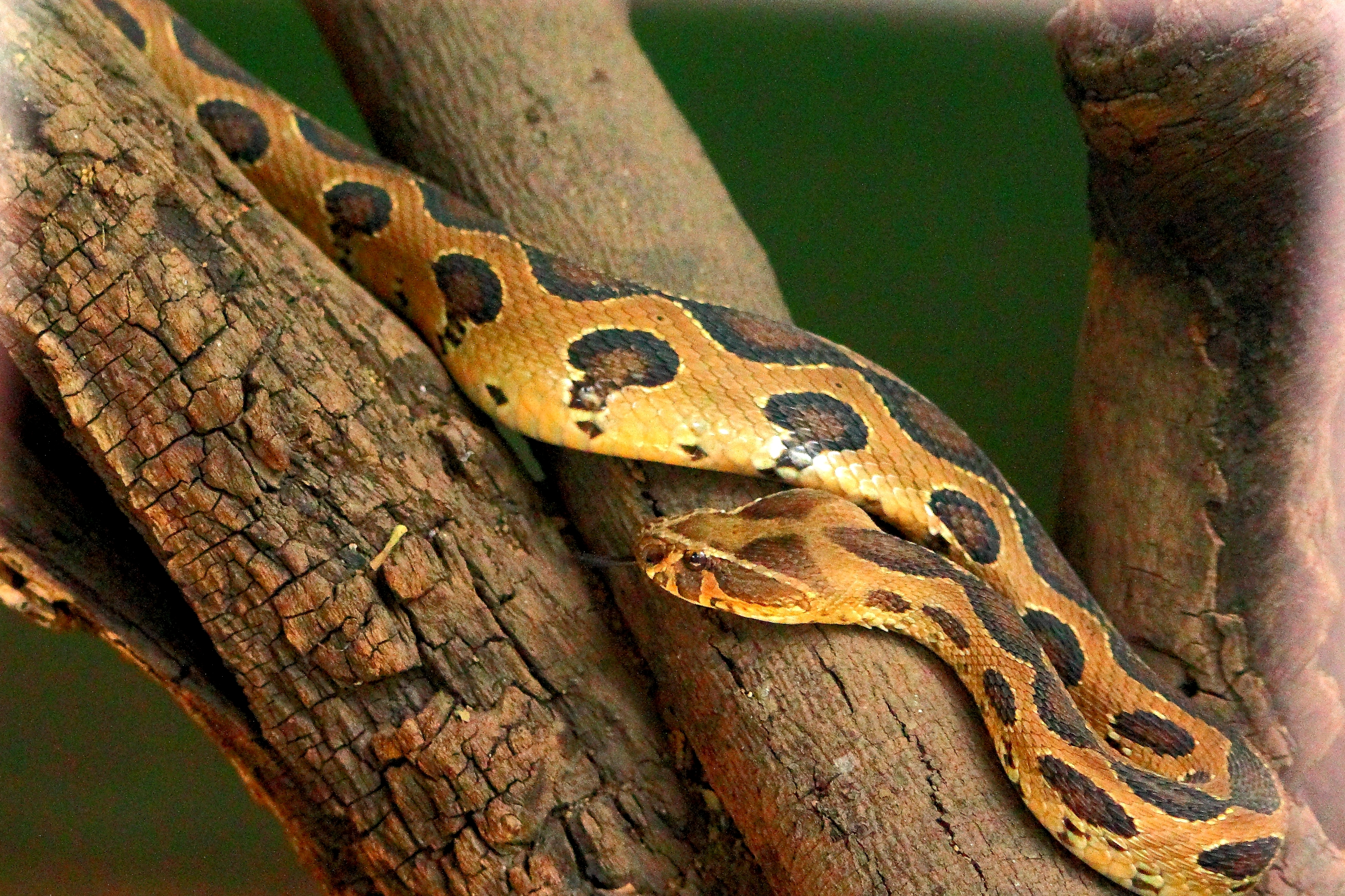 Russell's Viper : This photo was taken in pune zoo .(Rajiv Gandhi zoological park -Katraj )